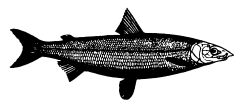 houting, Coregonus oxyrinchus